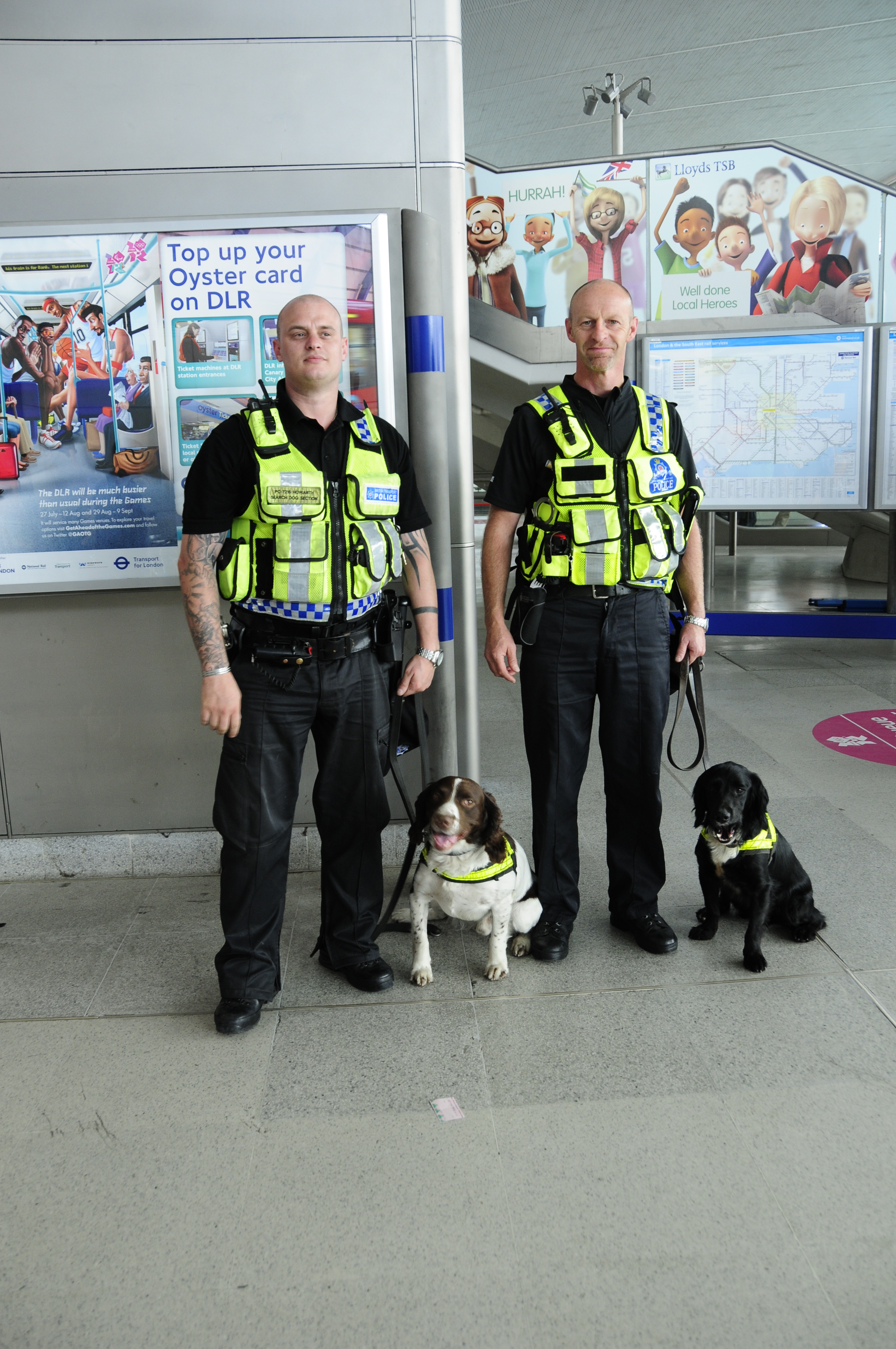 PC Craig Howarth (l) with Billy the Springer Spaniel and PC Mark Jones (r) with his dog Milo. Both dogs are trained to search for explosives and they are working in the main hall of Stratford train station.